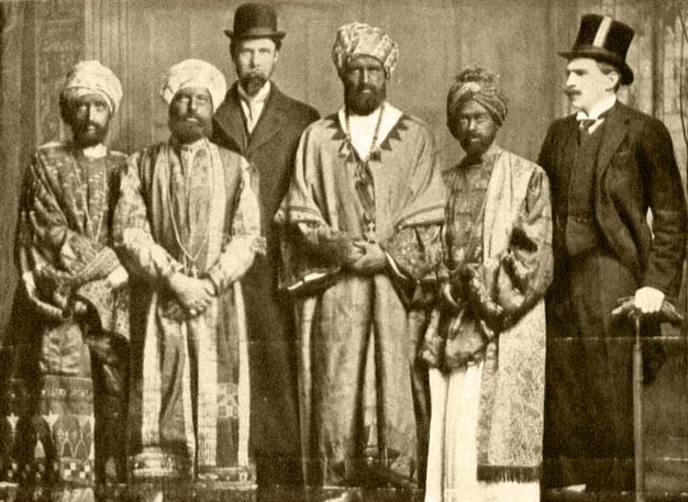 The 1910 Dreadnought hoax, Virginia Woolf extreme left, Cole extreme right.